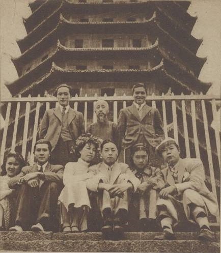 3 Pairs at the foot of Liuhe Pagoda, including Jiang Qing, Ma Jiliang, Zhao Dan, Ye Luqian, Gu Eryi and Du Xiaojuan.